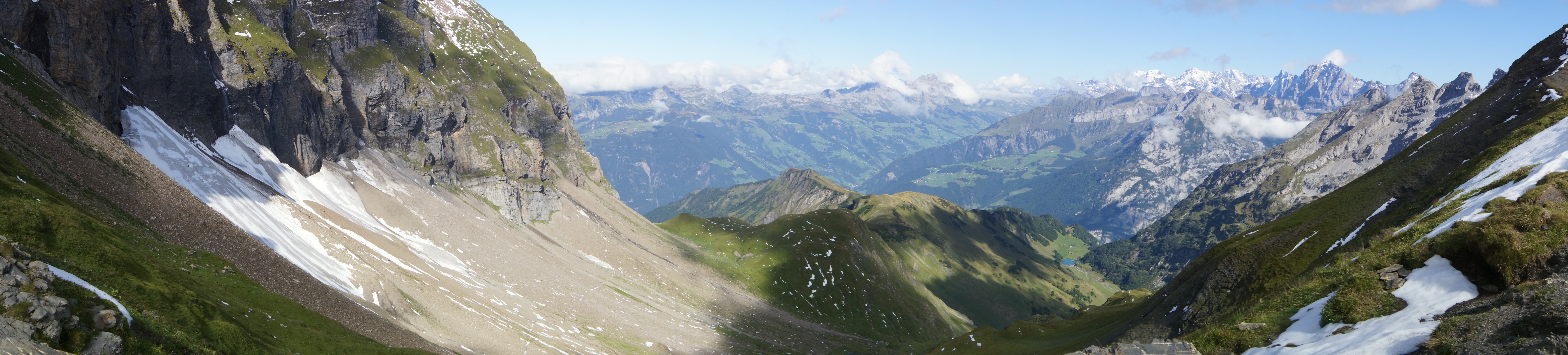 View from Surenenpass in the Urner Alps, looking eastwards